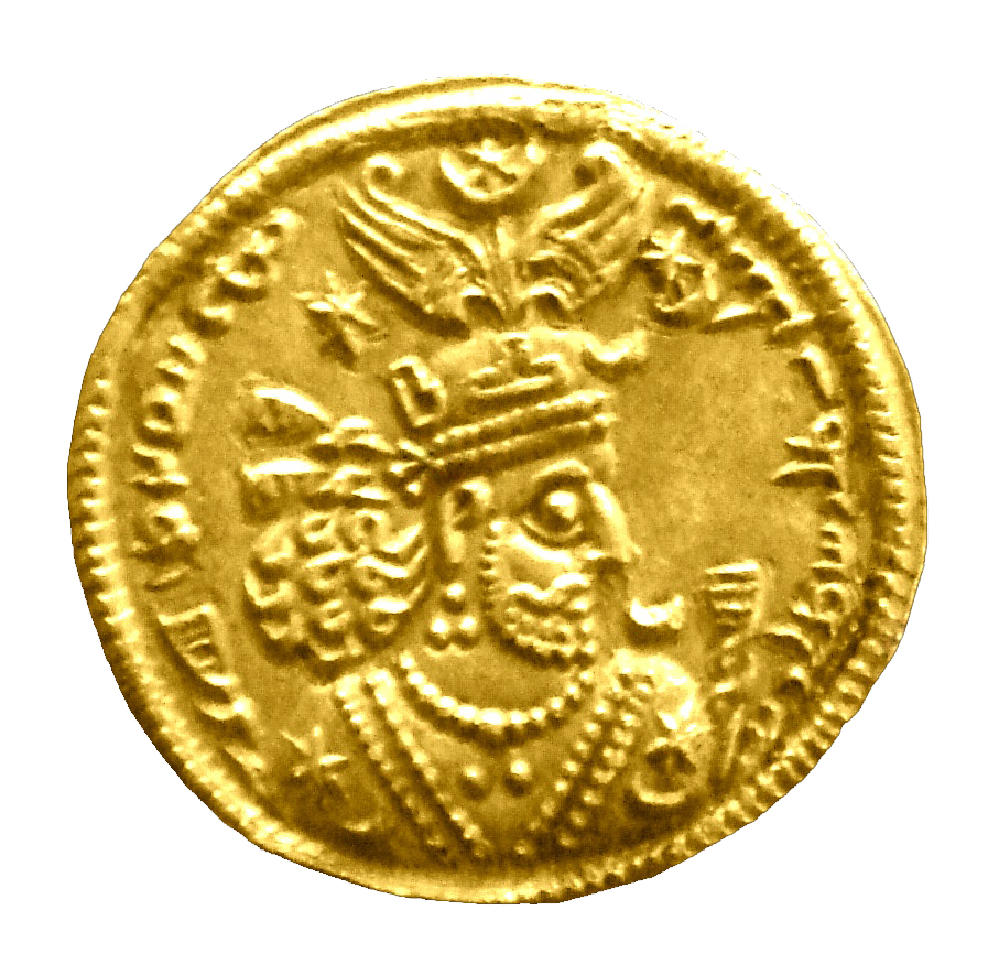 Gold coin of Khosrau II. Cabinet des Medailles. Personal photograph 2007.